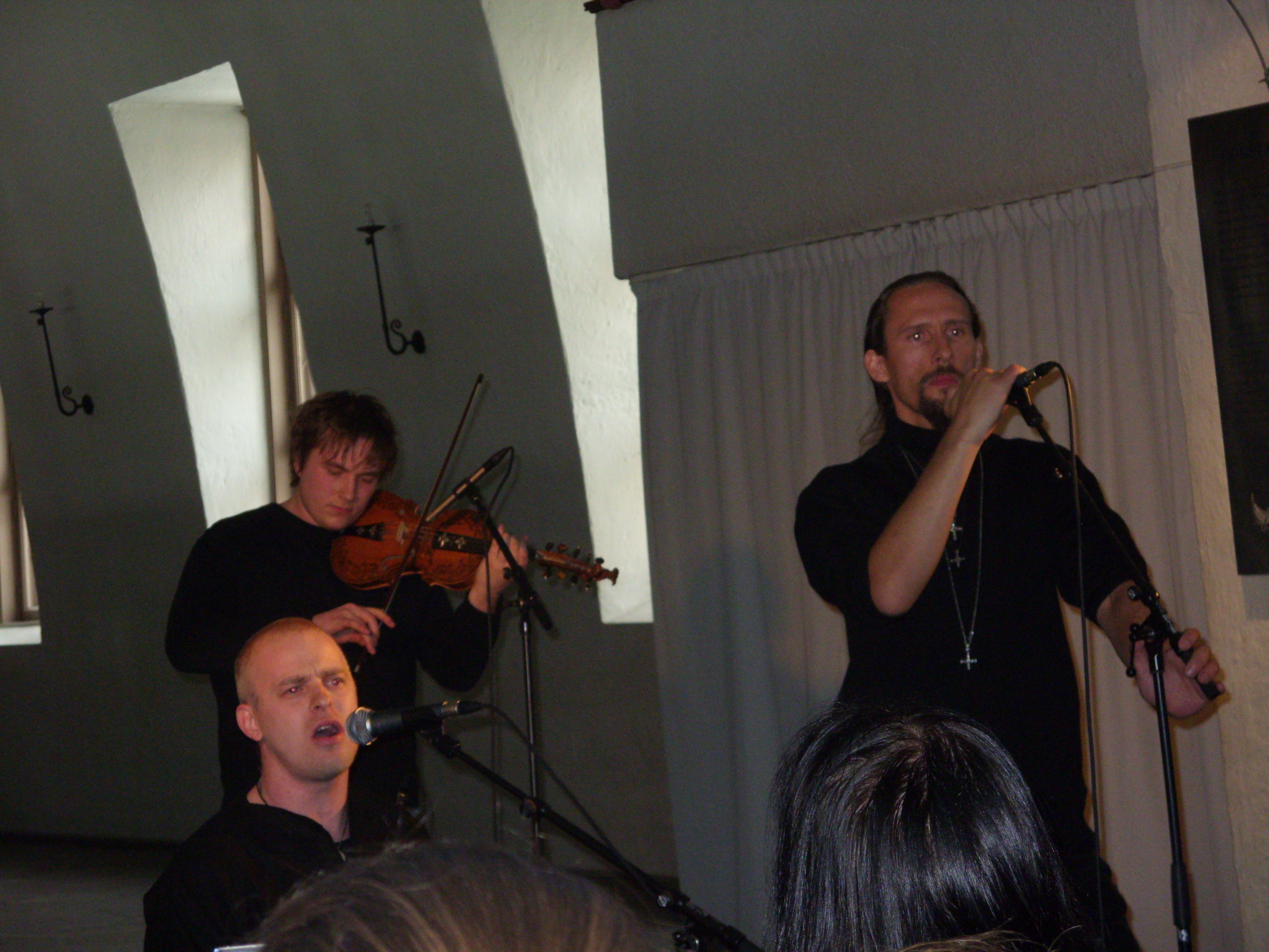 Norwegian band Wardruna performing at Inferno Festival (Oslo).